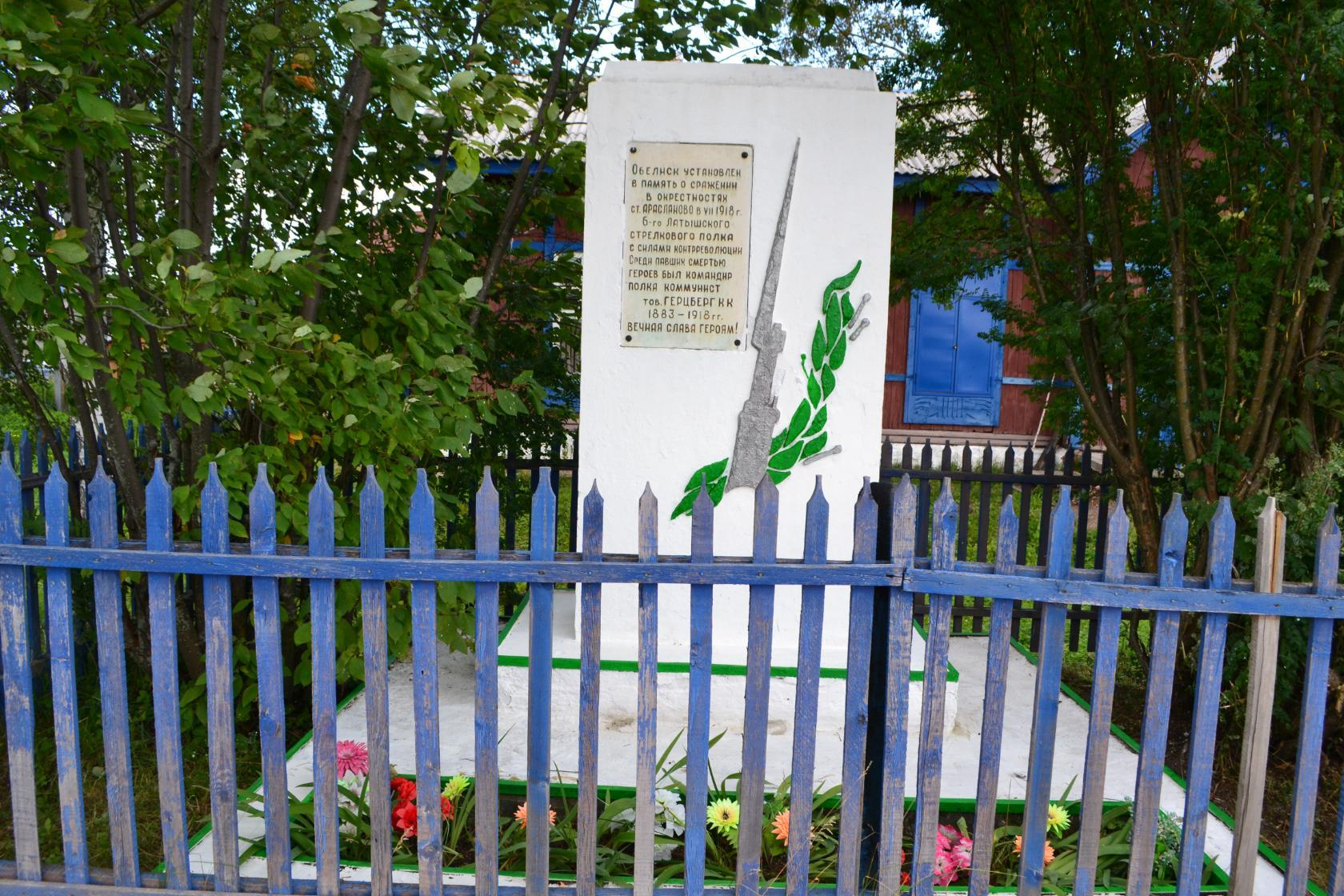 Russia. Araslanovo (railroad station)